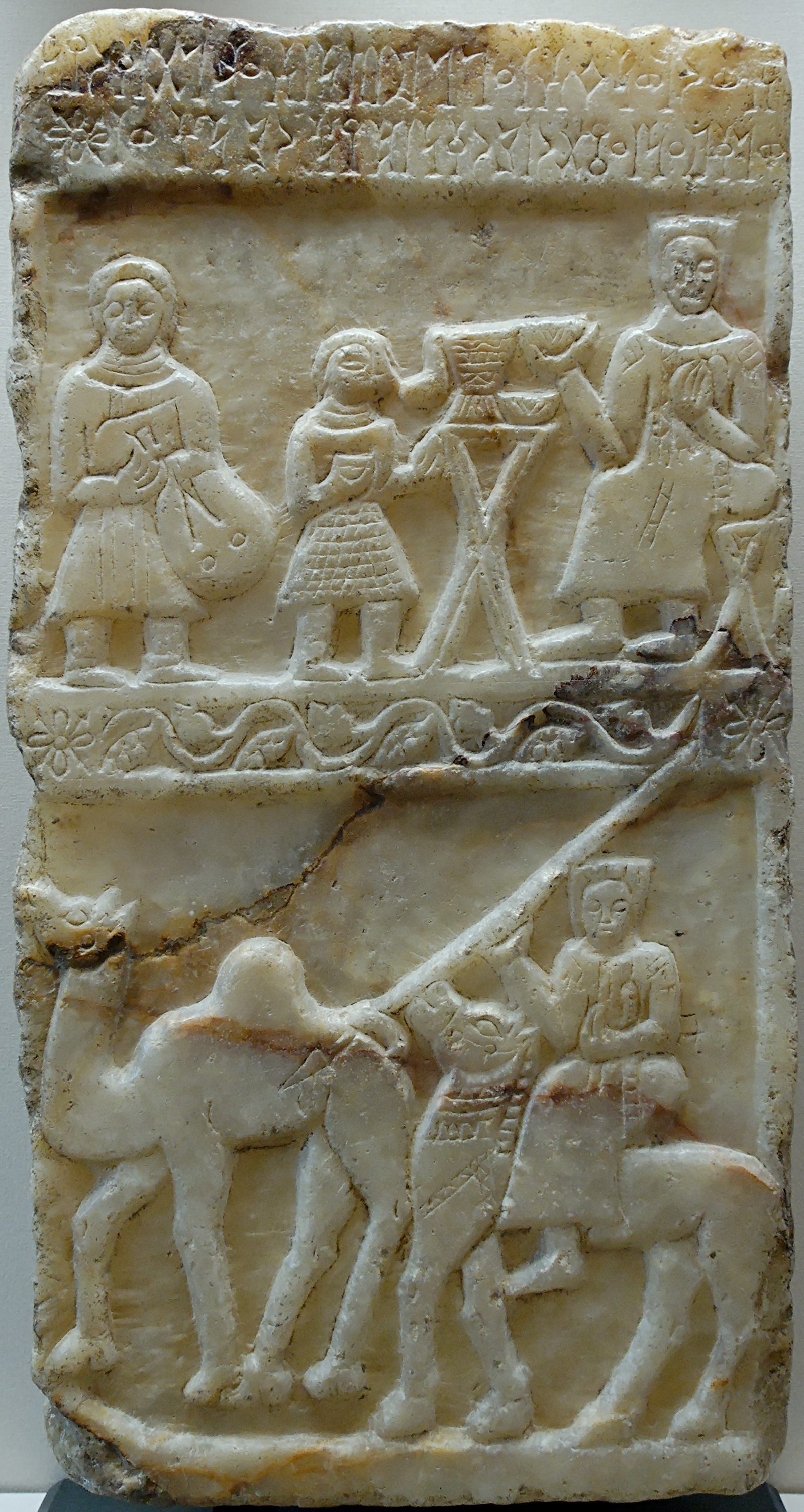 Funerary stele; upper band: banquet scene with three people; lower band: horse driver beside a camel. Sabaean inscription: “Image and funerary monument of `Iglum, son of Sa`adīllāt of Qaryot. May Eastern `Athtar smite whoever would destroy it.” Alabaster, 1st-3rd centuries AD. From Southern Arabia.